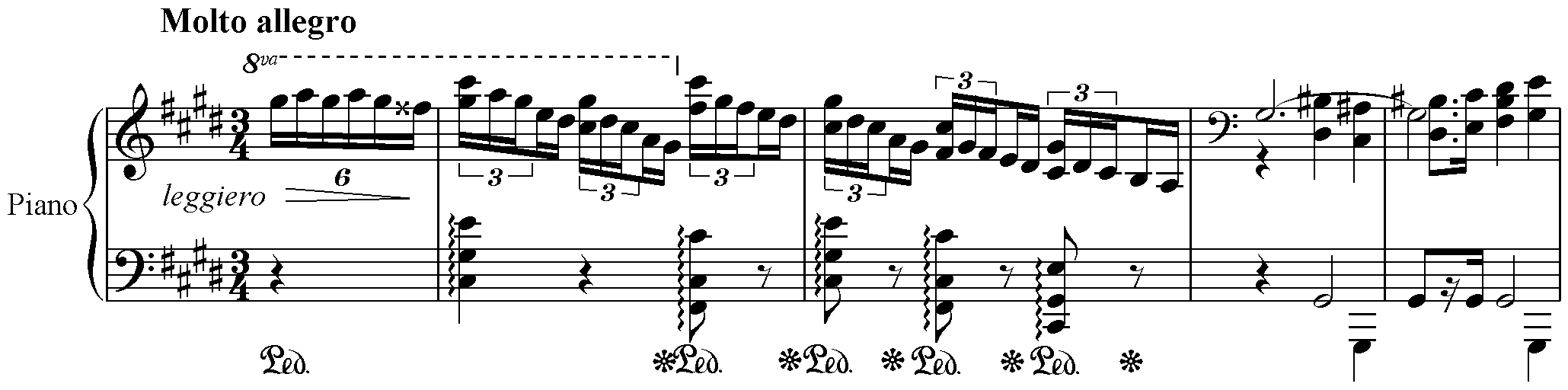 5 first bars of Chopins prelude 10 op. 28